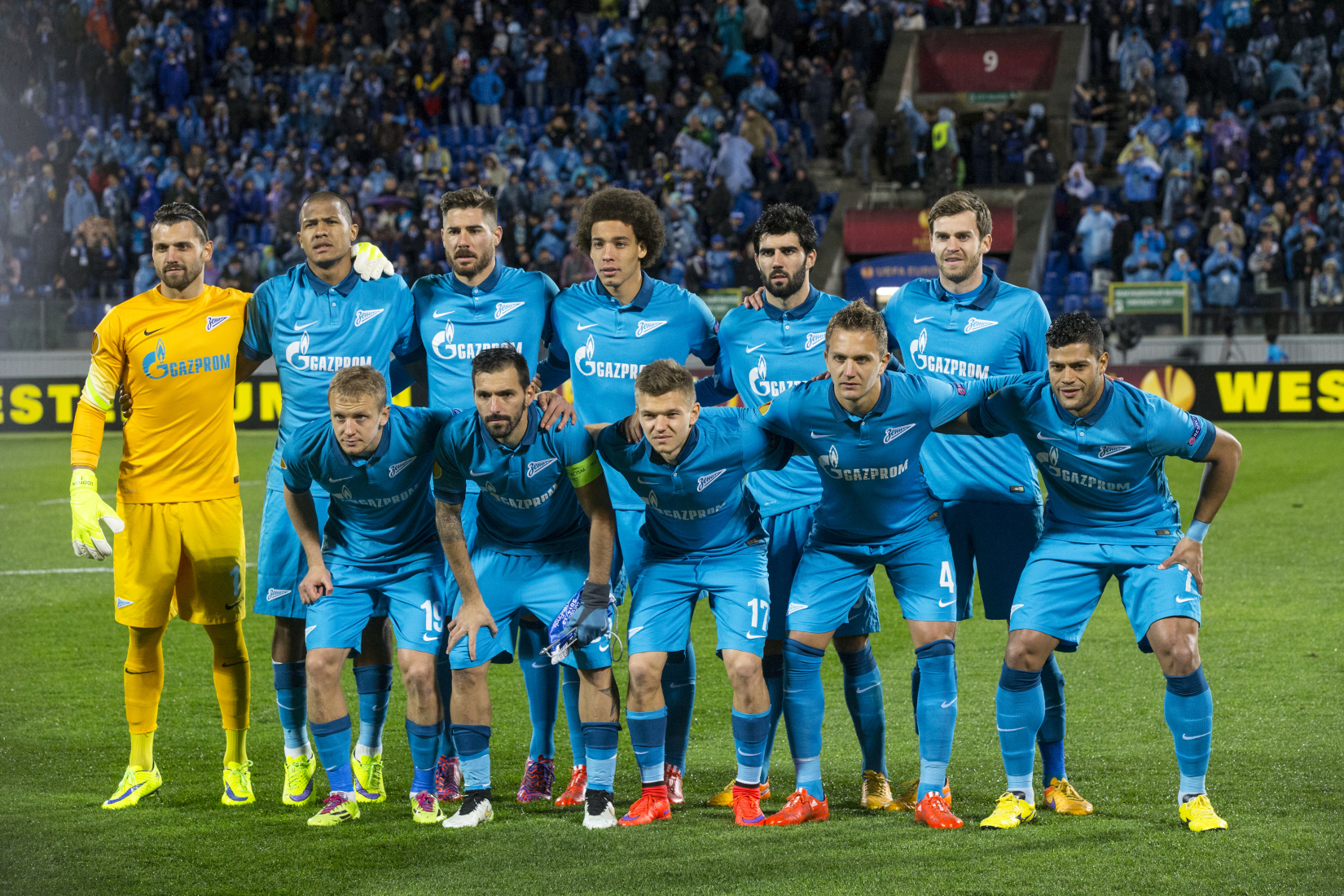 23.04.2015. Россия, Санкт-Петербург, стадион «Петровский». Лига Европы УЕФА 1/4 финала, «Зенит» — «Севилья». На снимке: (в первом ряду) Игорь Смольников, защитник ФК «Зенит», Данни, полузащитник ФК «Зенит», Олег Шатов, полузащитник ФК «Зенит», Доменико Кришито, защитник ФК «Зенит», Халк, нападающий ФК «Зенит», (во втором ряду) Юрий Лодыгин, вратарь ФК «Зенит», Саломон Рондон, нападающий ФК «Зенит», Хави Гарсия, полузащитник ФК «Зенит», Аксель Витсель, полузащитник ФК «Зенит», Луиш Нету, защитник ФК «Зенит», и Николас Ломбертс, защитник ФК «Зенит».